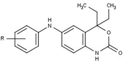 PR antagonists with an aryl group inked to benzoxazin-2-one core through an amino group at the 6-position